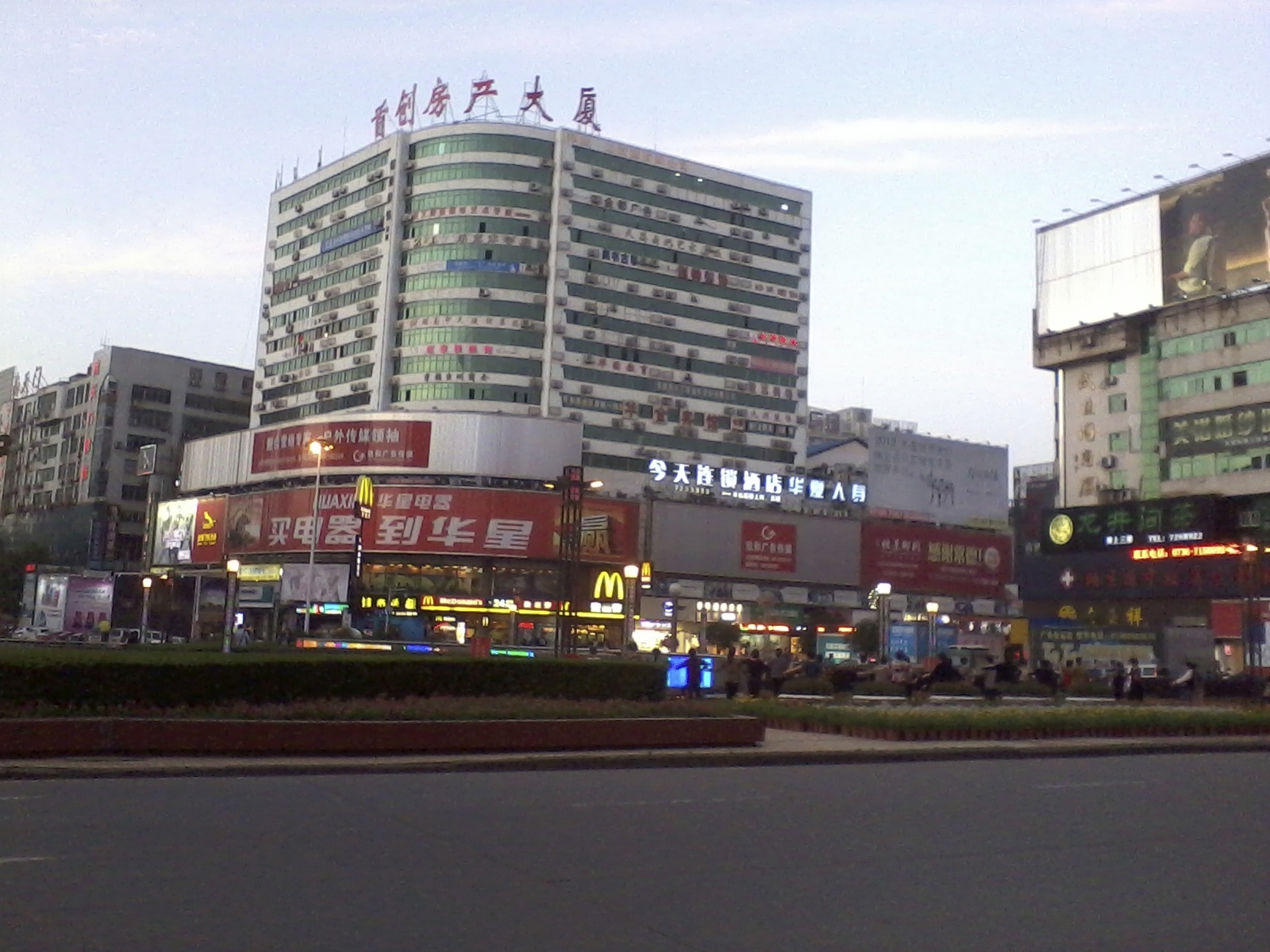 a corner in Changde near the end of the 'Walking Street'